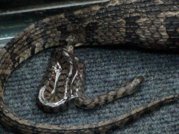 Diamondback Water Snake Photographer: User:Dawson taken from en.wikipedia Nerodia_rhombifer2.jpg, licensed as cc-by-sa-2.5.